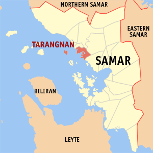 Map of Samar showing the location of Tarangnan